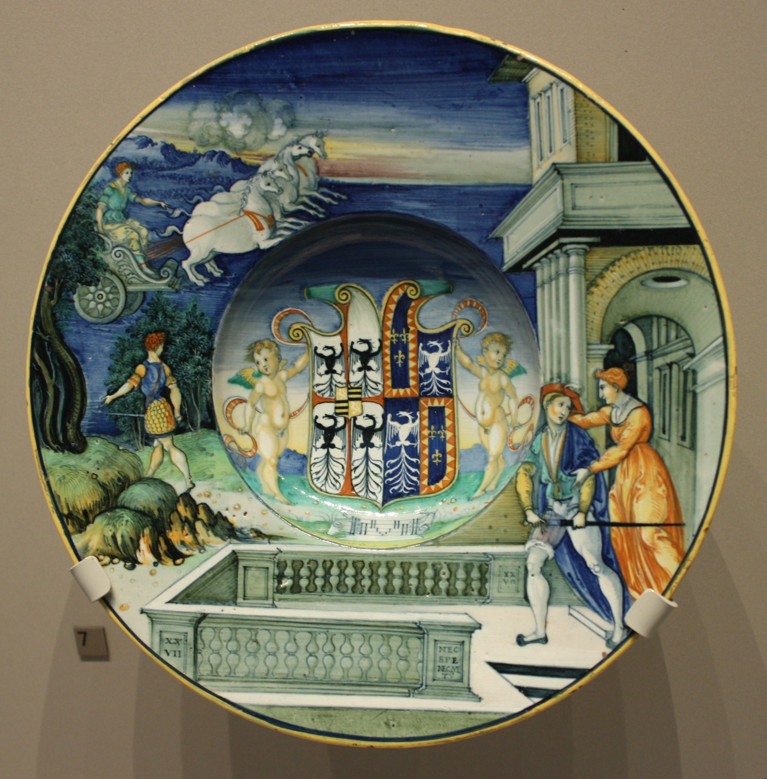 Plate with Hippolytus and Phaedra Probably 1524 Nicola da Urbino (Active 1520-38) This plate, showing the arms and mottoes of Isabella d\'Este and her late husband Gianfranco Gonzaga, was not housed in the study, but comes from a service probably kept at her villa. The Latin inscriptions and decoration, including a scene from Ovid, reflect Isabella\'s enthusiasm for classical learning. Italy, Urbino Tin-glazed earthenware (maiolica) Inscribed in Latin \'Without hope and without fear\' and 27 in Roman numerals (read as \'vinte sete\' in Italian or \'You are defeated\') Salting Bequest Collection ID: C.2229-1910 This photo was taken as part of Britain Loves Wikipedia in February 2010 by Valerie McGlinchey.